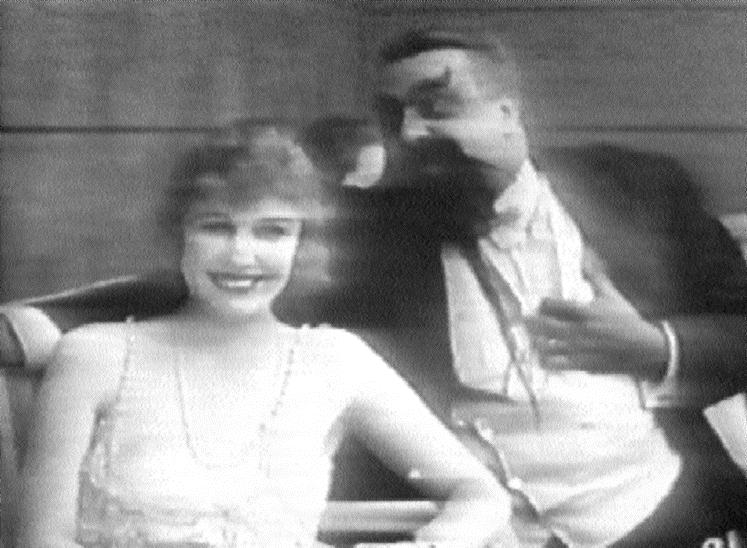 Edna Purviance, Eric Campbell, Chaplin directing